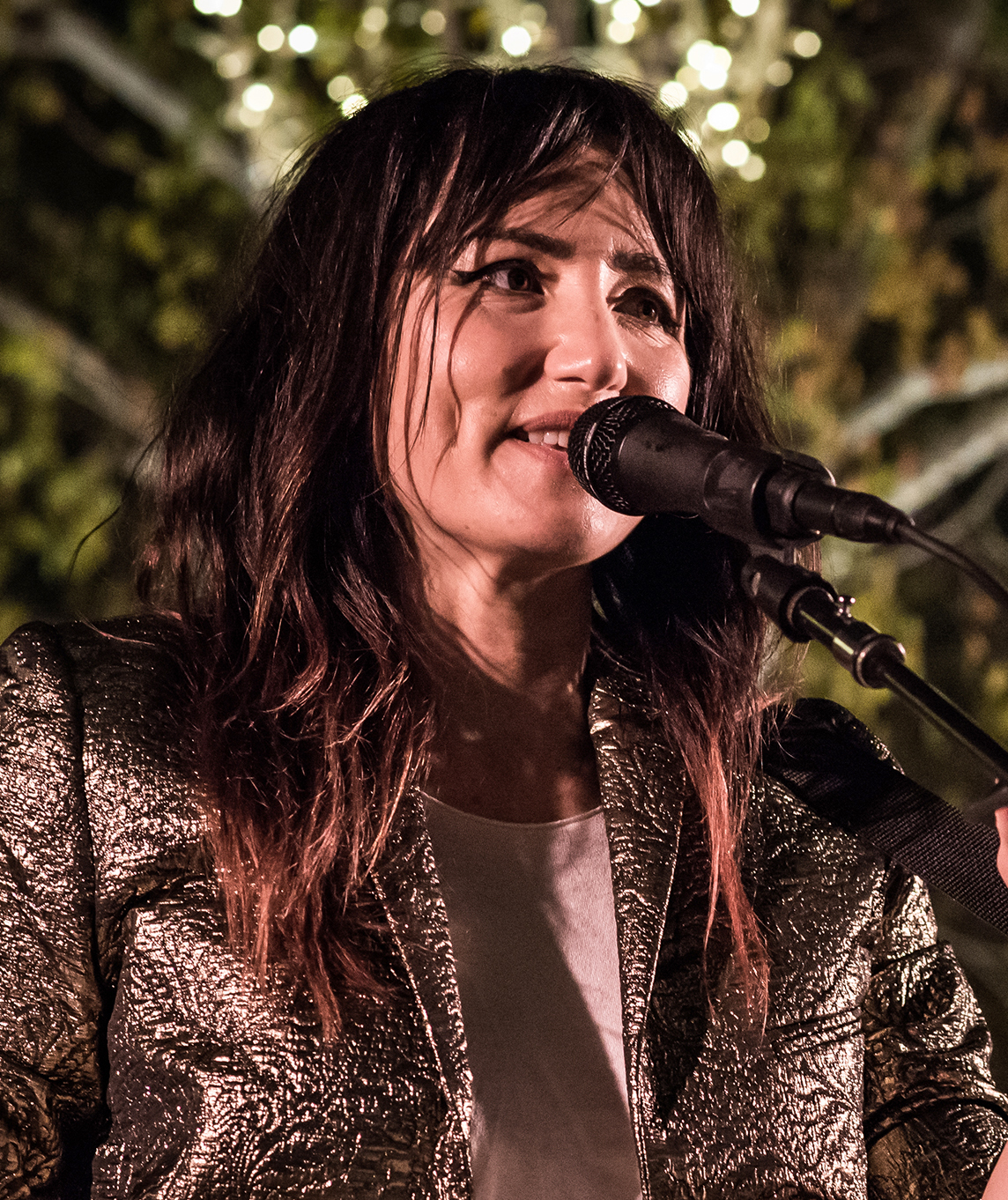 KT Tunstall performing live for KCRW at One Colorado Old Pasadena, in Pasadena, Los Angeles, California, on Saturday, December 10, 2016.